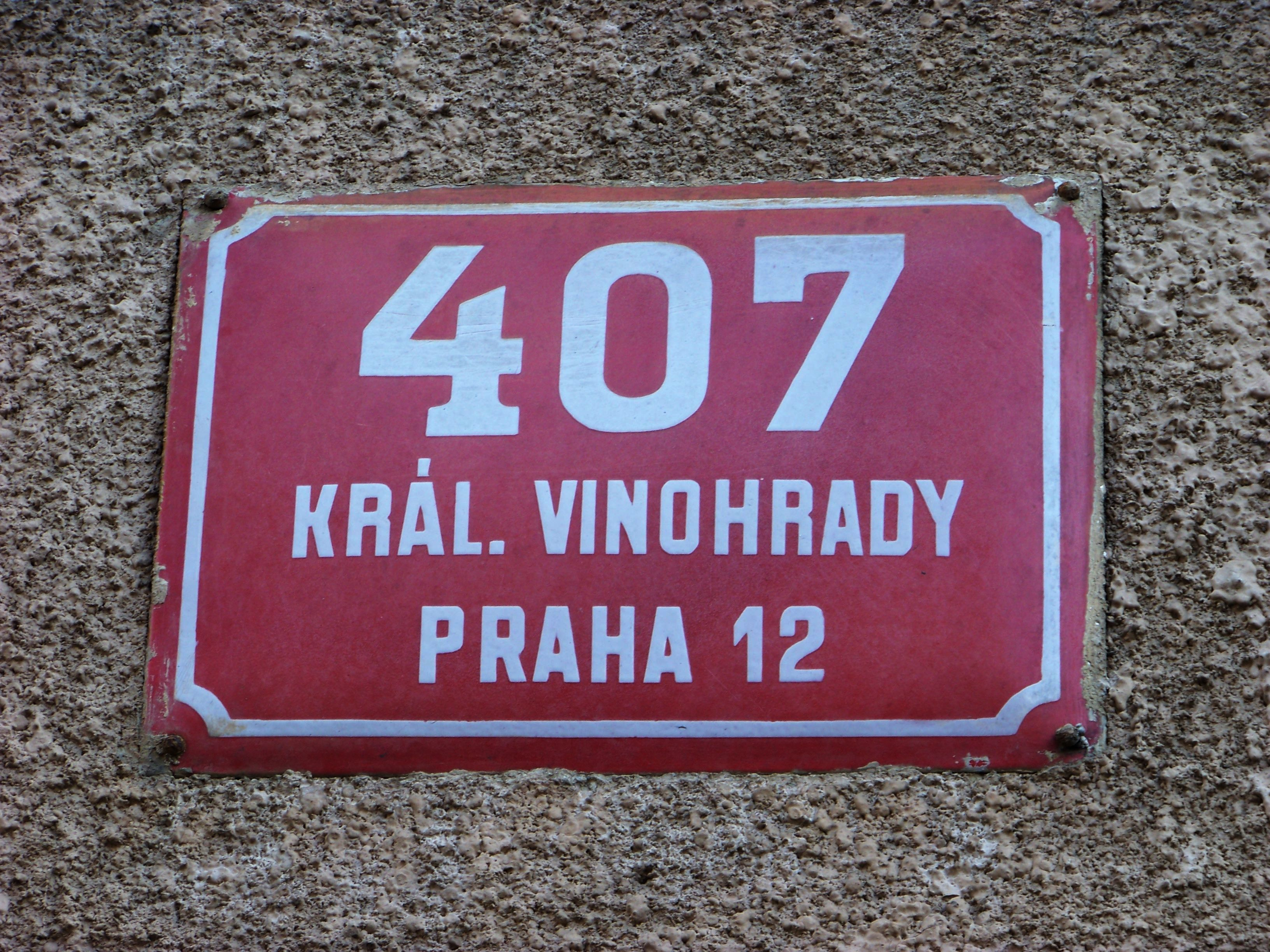 Prague-Vinohrady, the Czech Republic. Bělehradská 407/22, former train station Vinohrady, a house number.